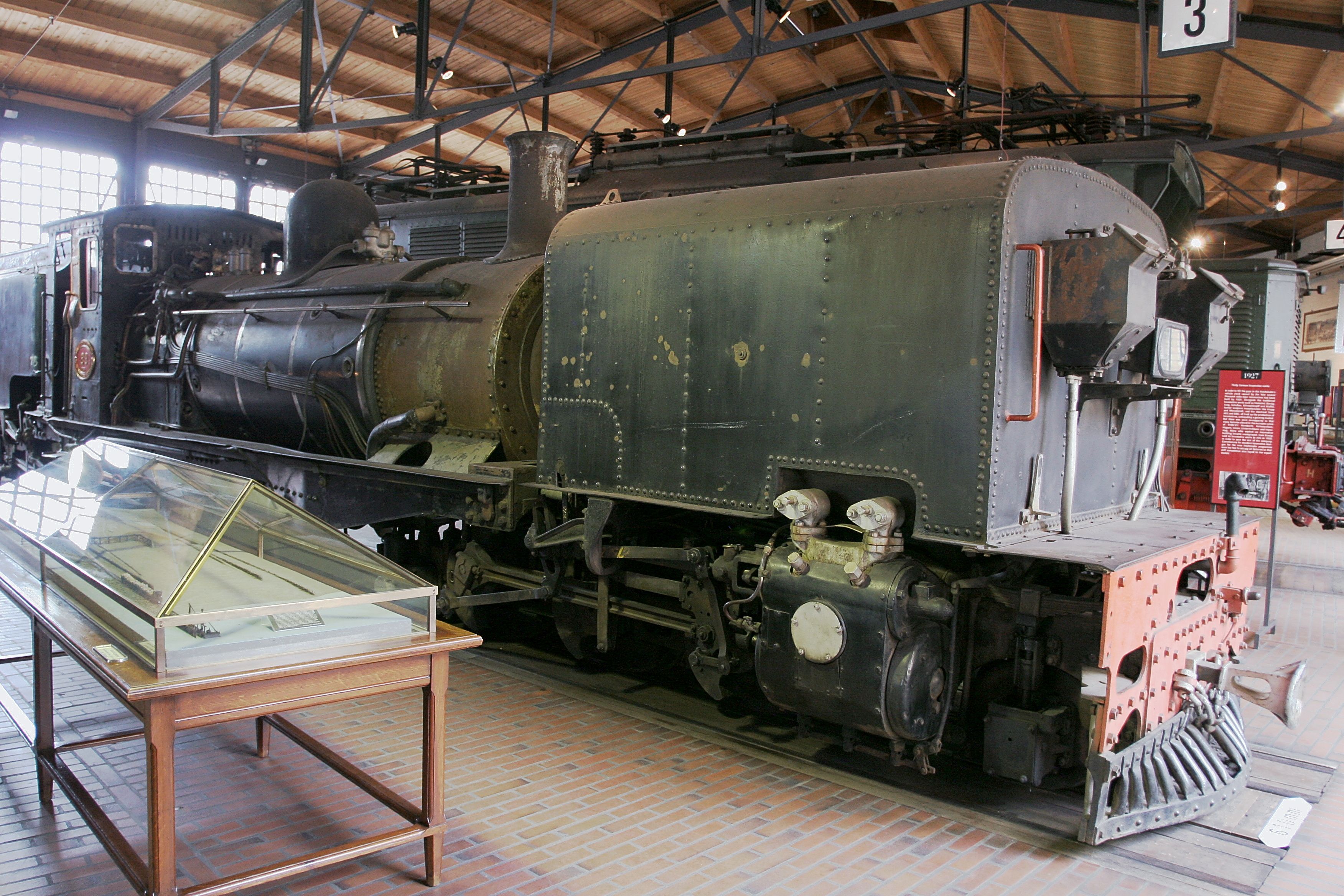 SAR NGG 13 No. 78 at Deutsches Technikmuseum Berlin